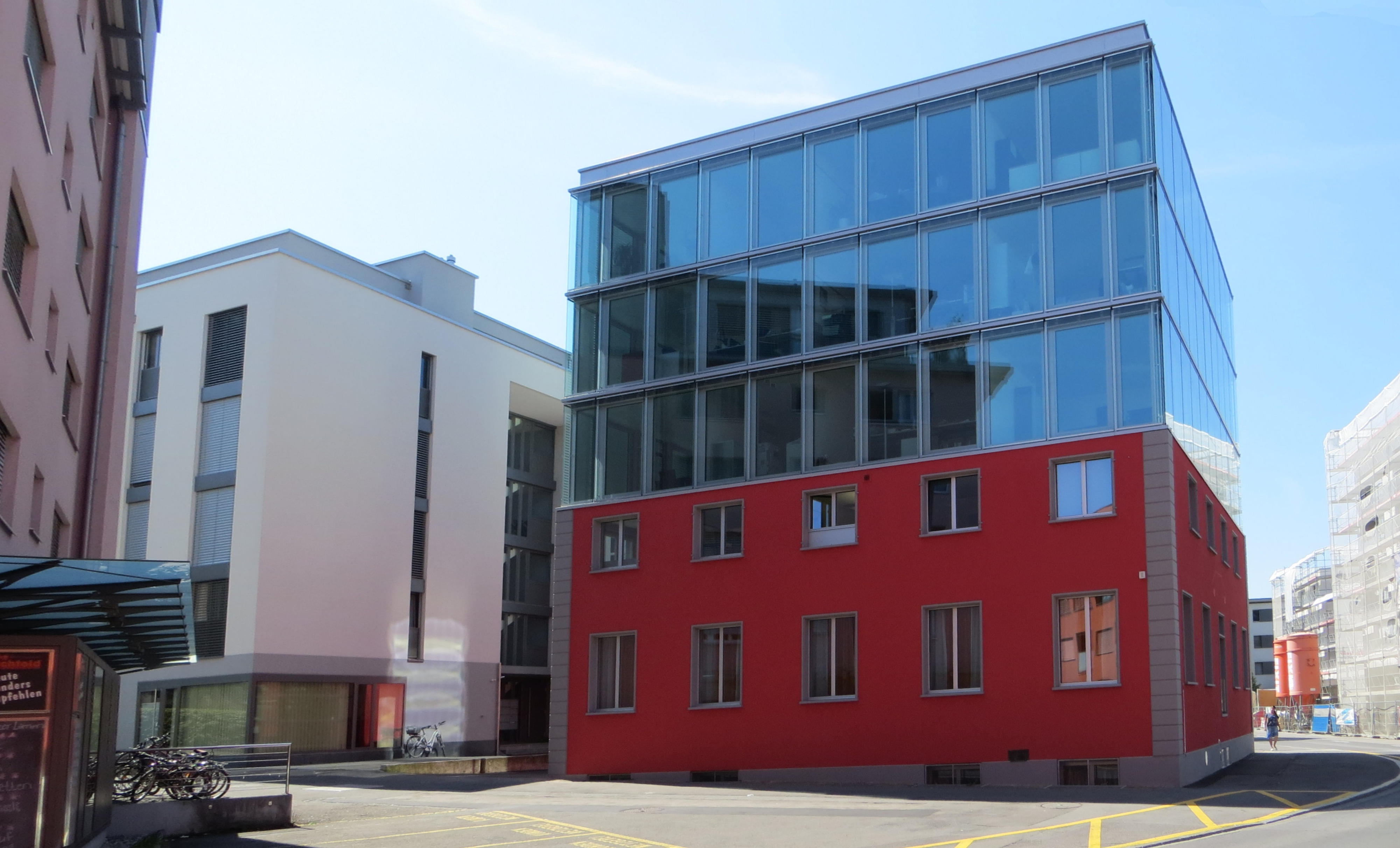 RotkreuzErstwhile Kreuz HotelNow business house with Club Noi in ground floor